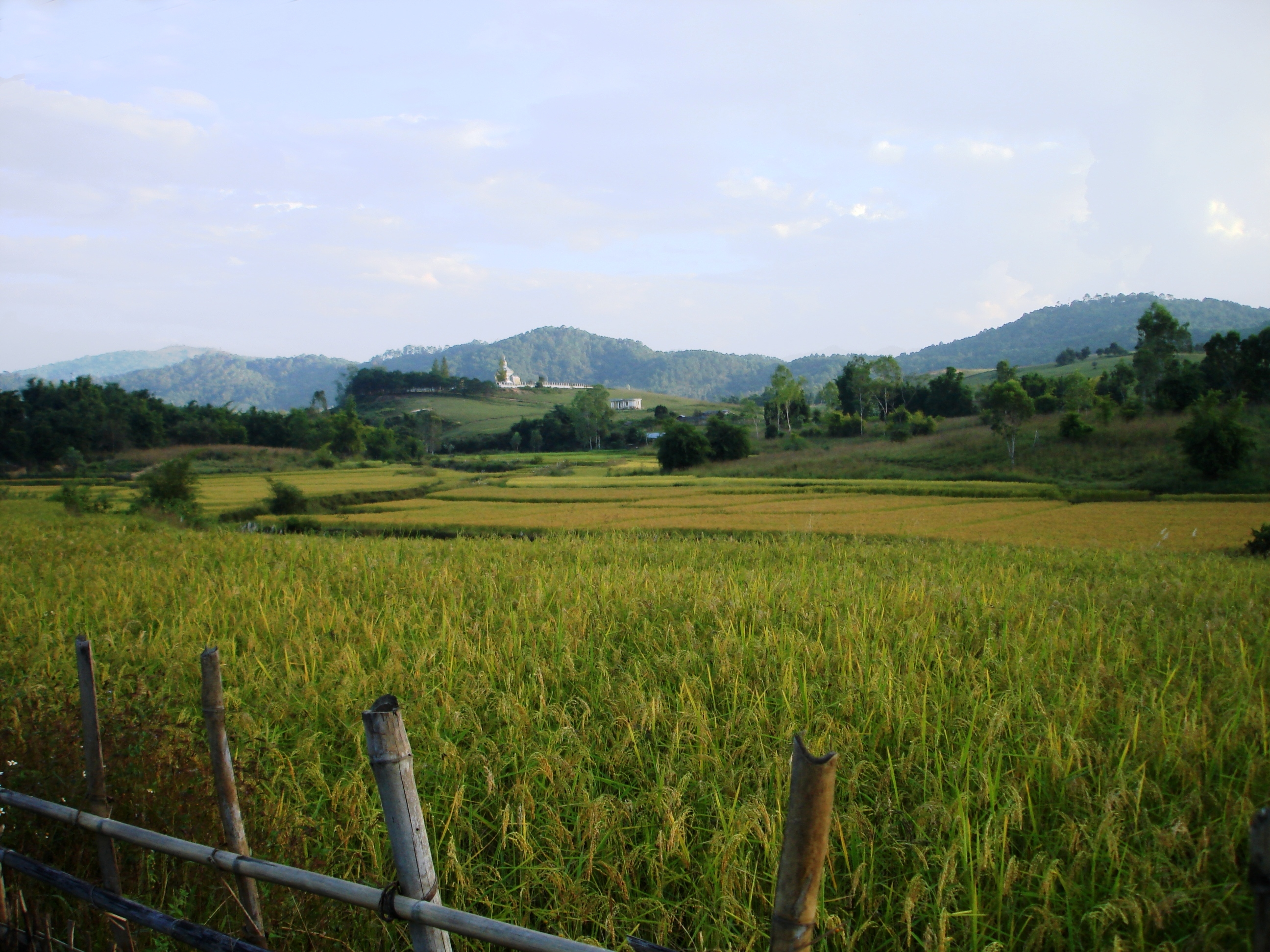 View from Phonsavanh to the hills outside the town.